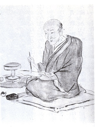 Drawing of the Buddhist nun Ōtagaki Rengetsu (大田垣蓮月) at a high age, writing.